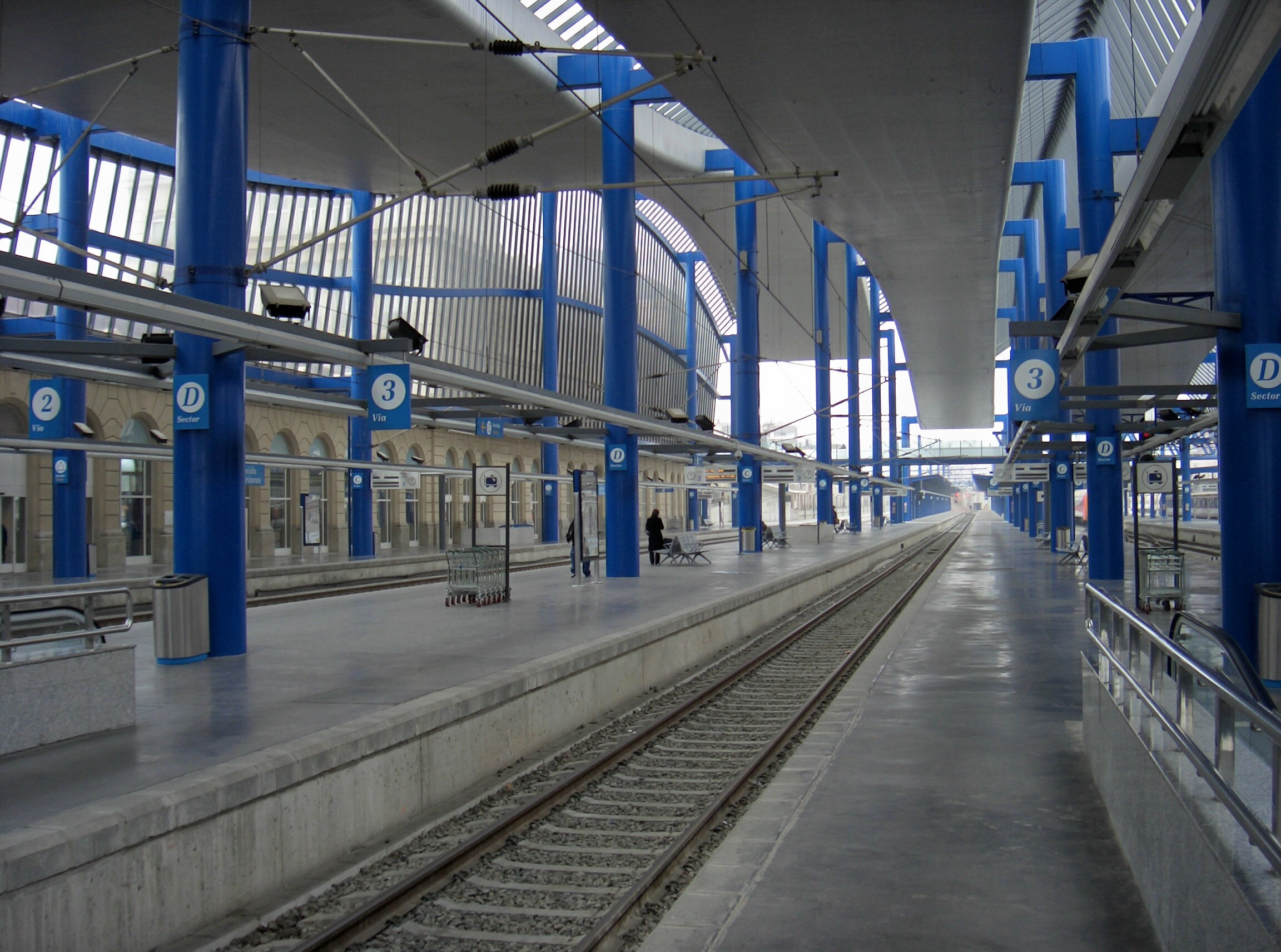 Detail of the roadsides of the Station of trains from Lleida-Pirineus to Spain